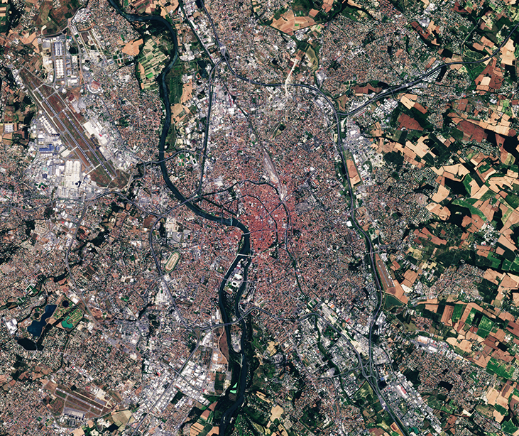 The Copernicus Sentinel-2A satellite takes us over Toulouse in southern France and the surrounding agricultural landscape. Positioned on the banks of the River Garonne, the city is France’s fourth largest. It is nicknamed the Ville Rose – pink city – owing to the colour of the terracotta bricks commonly used in the local architecture. Even from space, the pinkish tint from the terracotta roof tiles is evident. In the upper left we can see the runways of the Toulouse-Blagnac airport. The air route to the Paris Orly airport is one of the busiest in Europe. Fields blanketing the countryside dominate the image. In fact, France is the EU’s leading agricultural power and is home to about a third of all agricultural land within the EU. While agriculture brings benefits for economy and food security, it puts the environment under pressure. Satellites can help to map and monitor land use, and the information they provide can be used to improve agricultural practices. This image, also featured on theEarth from Space video programme, was captured on 10 July 2017 by Sentinel-2’s multispectral camera. Sentinel-2 is designed to provide images that can be used to distinguish between different crop types as well as data on numerous plant indices, such as leaf area, leaf chlorophyll and leaf water – all essential to monitor plant growth accurately.